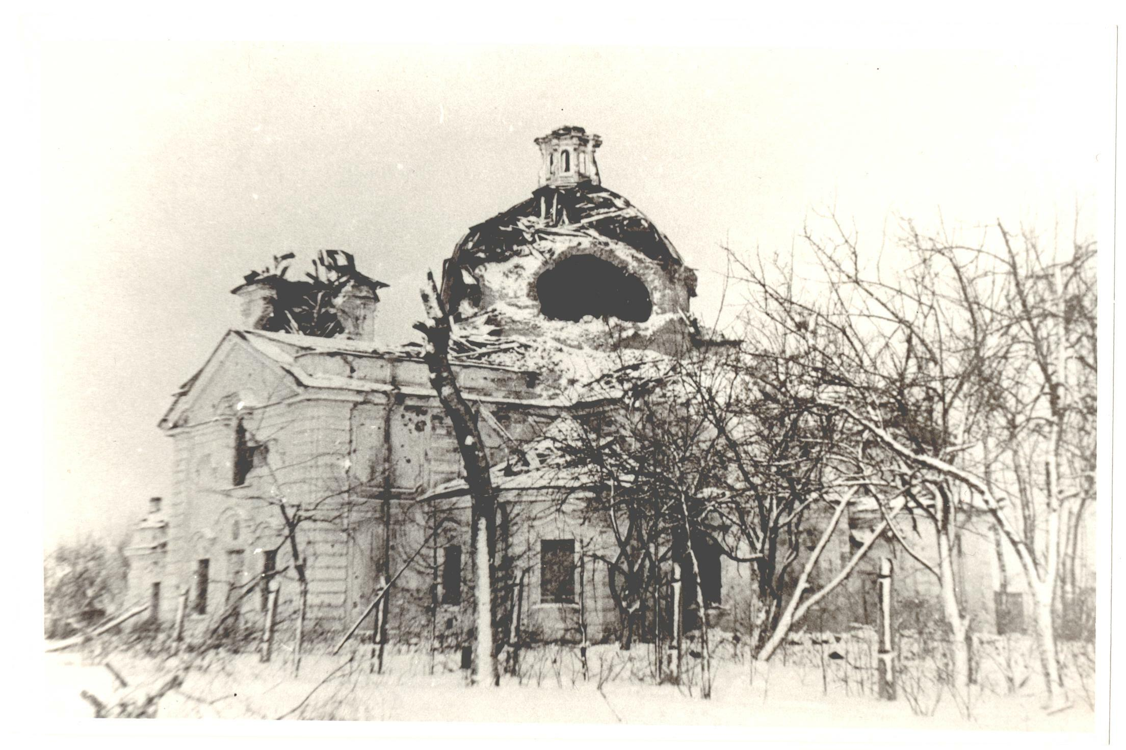 Krasnoye Selo (Russia)